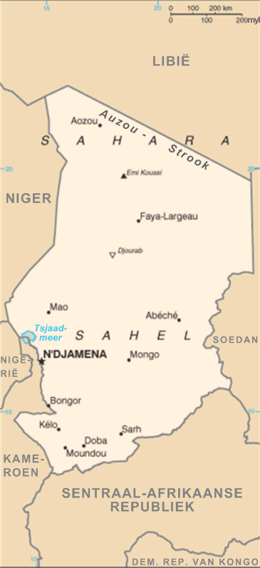 An Afrikaans map of Chad.